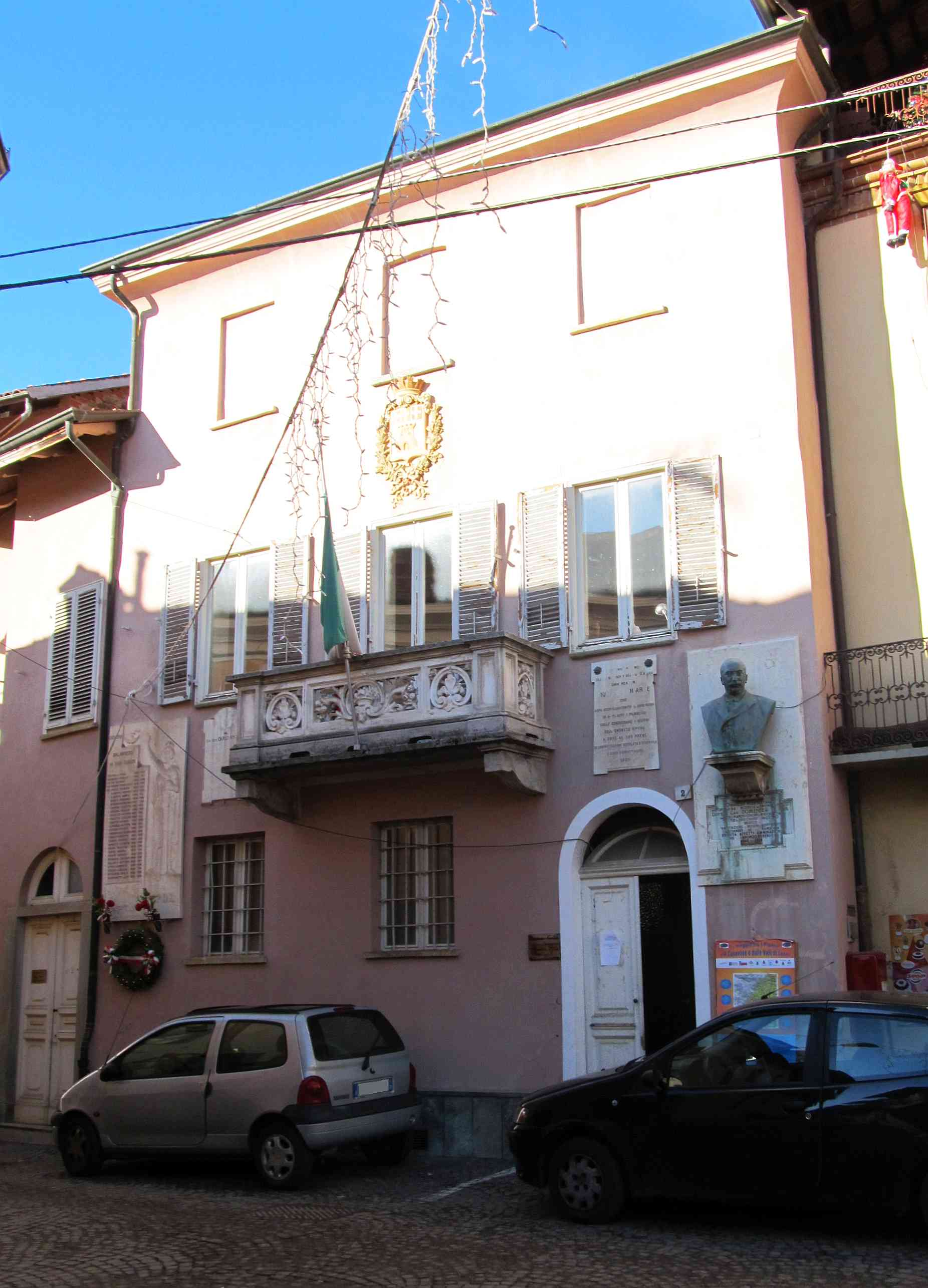 Balangero (TO, Italy): old town hall